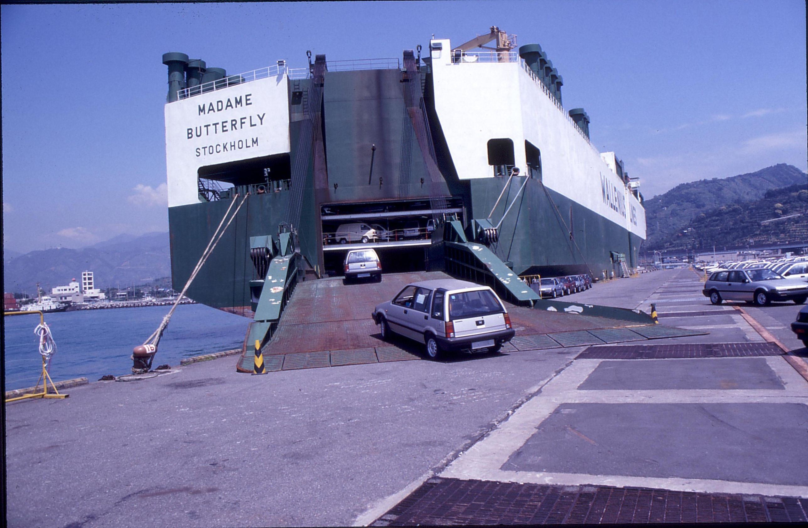 Japanese loading-gang swiftly loading cars onboard Swedish PCTC Madame Bytterfly at Shimizu-ku Shizuoka, Japan in april 1986.